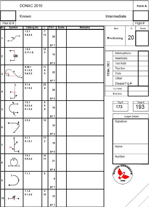 Aresti example. This is the 2010 intermediate known compulsory sequence used in the Netherlands.